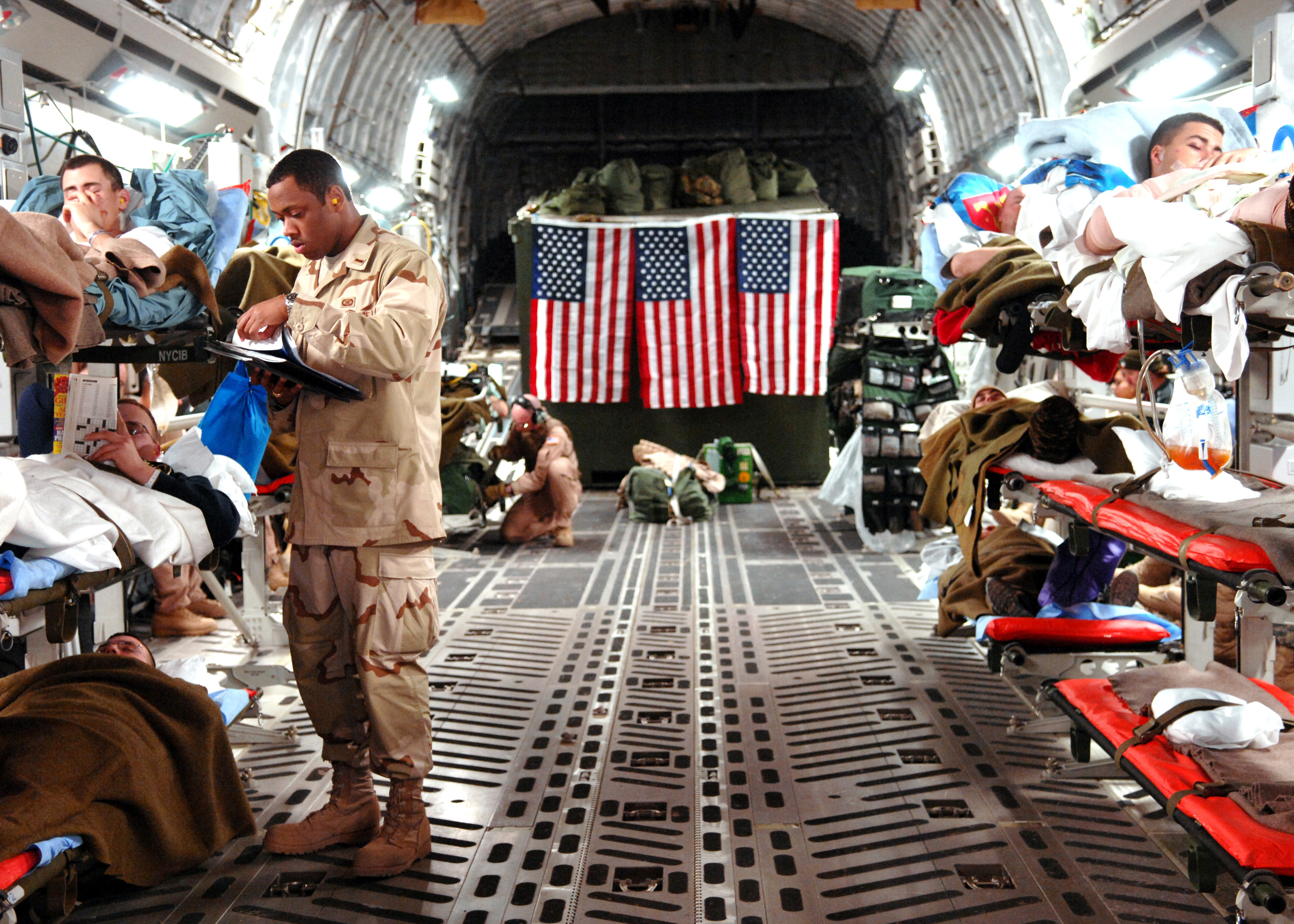 A Medical evacuation flight (Mississippi Air National Guard's 172nd Airlift Wing/791st Expeditionary Aeromedical Evacuation Squadron) from Balad Air Base, Iraq, to Ramstein Air Base, Germany, on February 25, 2007. US Air Force personnel gather patient information on a C-17 aeromedical evacuation mission from Balad Air Base, Iraq to Ramstein Air Base, Germany. The Boeing (formerly McDonnell Douglas) C-17 Globemaster III is a large American airlifter manufactured by Boeing Integrated Defense Systems, and operated by the United States Air Force, British Royal Air Force, the Royal Australian Air Force, and the Canadian Forces.[3] NATO and Qatar will also acquire the airlifter. The C-17 Globemaster III is capable of rapid strategic delivery of troops and all types of cargo to main operating bases or directly to forward bases in the deployment area. It is also capable of performing tactical airlift, medical evacuation and airdrop missions. The C-17 takes its name from two previous United States cargo aircraft, the C-74 Globemaster and the C-124 Globemaster II. C-17 Specifications: General characteristics Crew: 3: 2 pilots, 1 loadmaster Capacity: 102 troops or 36 litter and 54 ambulatory patients Payload: 170,900 lb (77,519 kg) of cargo distributed at max over 18 463L master pallets or a mix of palletized cargo and vehicles Length: 174 ft (53 m) Wingspan: 169.8 ft (51.75 m) Height: 55.1 ft (16.8 m) Wing area: 3,800 ft² (353 m²) Empty weight: 282,500 lb (128,100 kg) Max takeoff weight: 585,000 lb (265,350 kg) Powerplant: 4× Pratt & Whitney F117-PW-100 turbofans, 40,440 lbf (180 kN) each Fuel capacity: 35,546 US gal (134,556 L) Performance Cruise speed: Mach 0.76 (450 knots, 515 mph, 830 km/h) Range: 2,420 nmi[74] (2,785 mi, 4,482 km) Service ceiling 45,000 ft (13,716 m) Max wing loading: 150 lb/ft² (750 kg/m²) Minimum thrust/weight: 0.277